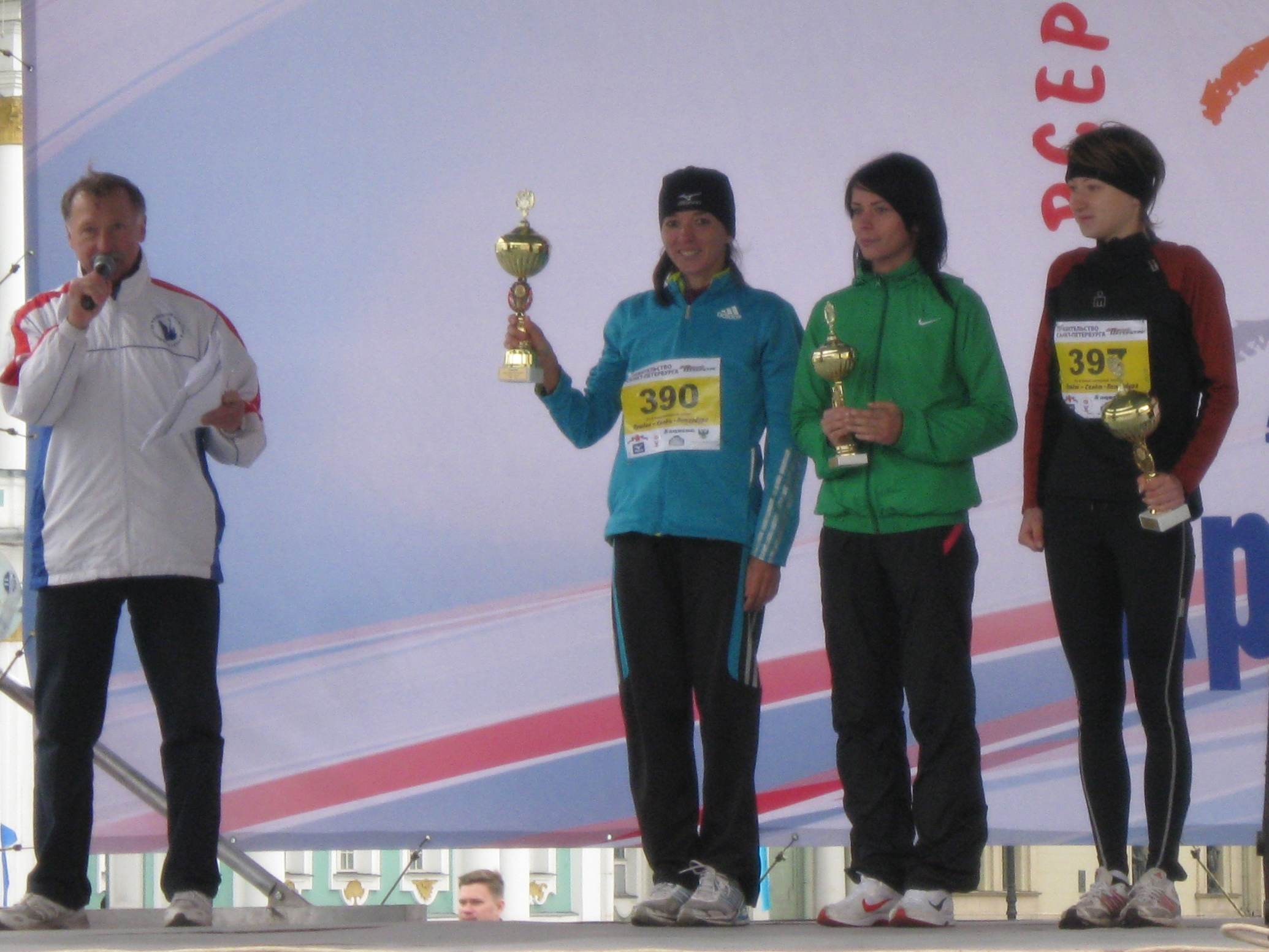 Pushkin-Peterburg marathon 2011 (30 km), the winners among women